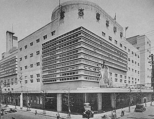 Tokyo Takarazuka Theater in Taisho and Pre-war Showa eras